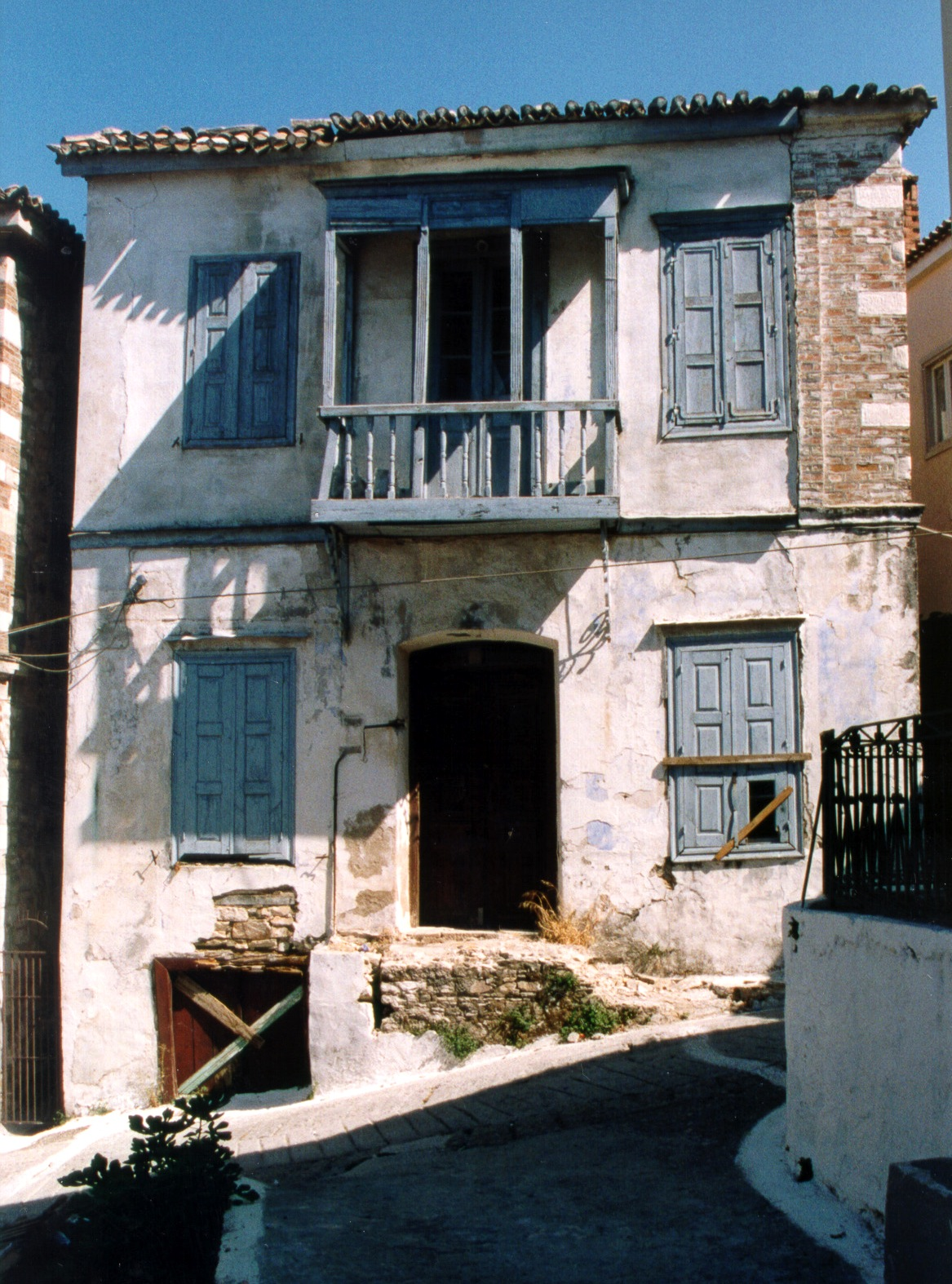 Demolished old house in the village of Nenedes (Samos island, Greece). It was built by Apostolos Makris (born 1859).